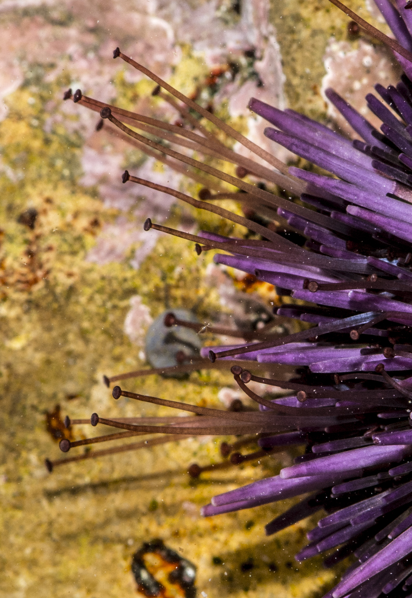 All Echinoderms have tube feet, as seen here.